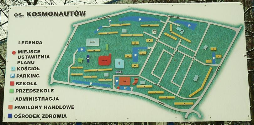 Plan of Kosmonautow District in Poznan.